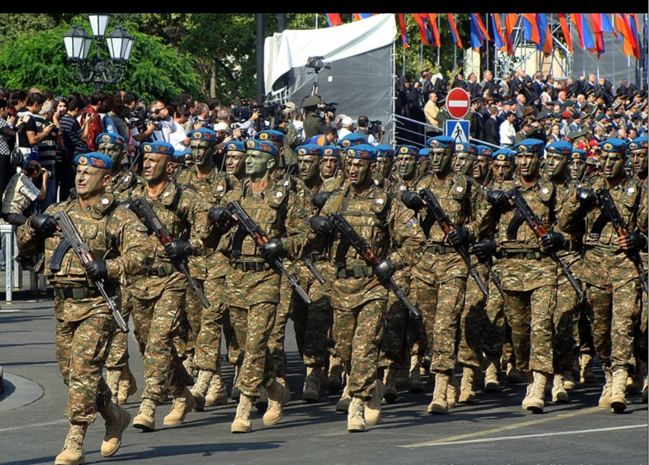 Armenian Army Special Forces